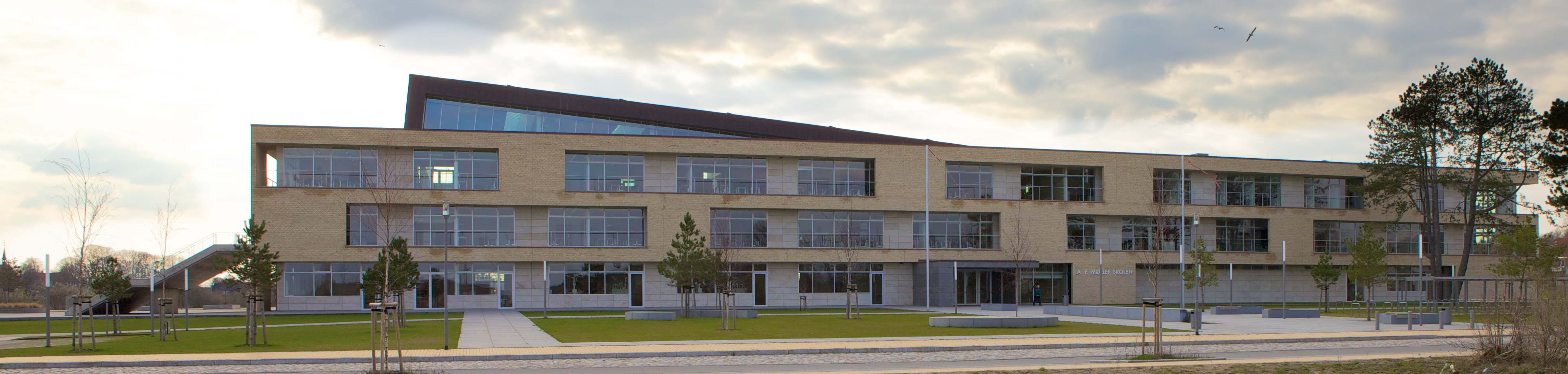 A. P. Møller-Skolen main entrance